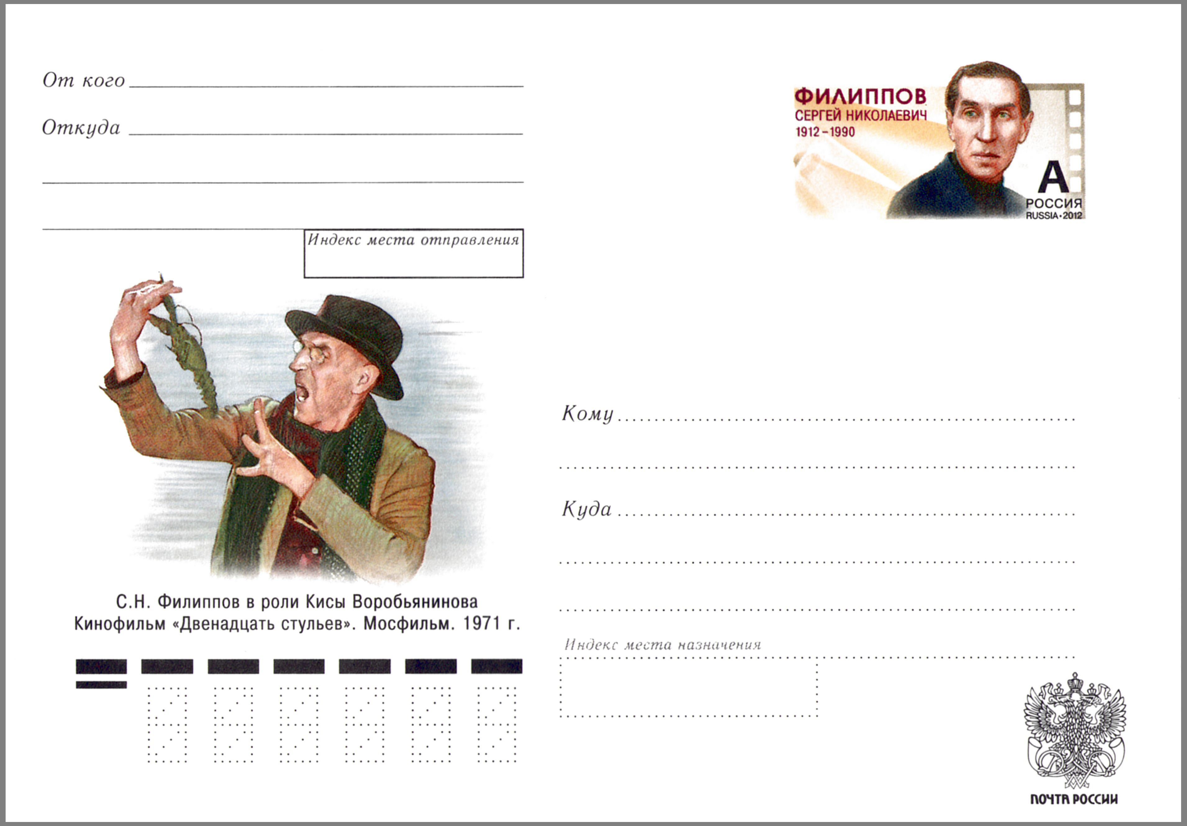 100th birth anniversary of the Soviet Russian film and theatre actor Sergey Filippov (1912–1990).The illustrated postal stationery envelope with commemorative stamp, Russia, 22 June 2012. Catalogue of PTC Marka No 229/кор-12, Michel No USo230. Envelope paper VBM (ВБМ) with watermarks “ПОЧТА РОССИИ”. Offset printing. Size of the envelope: 114×162 mm. Print run: 500,000.The commemorative non-denominated stamp “Letter A” (for domestic letters, weight 20g or less): the portrait of Sergey Filippov.The illustration: Sergey Filippov as Ippolit Matveyevich (Kisa) Vorobyaninov in the comedy film The Twelve Chairs (USSR, Mosfilm, 1971; after the novel of the same name by I. Ilf and E. Petrov).